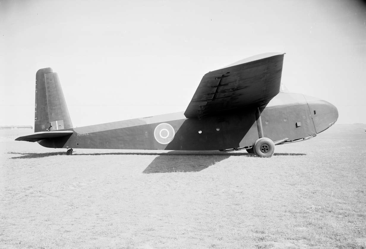 Hamilcar Mark I, HH922, in the hands of No. 38 Group RAF at Netheravon, Wiltshire. HH922 was transferred to 1 Heavy Glider Servicing Unit in January 1944, its operational service ending on 11 January 1945 when it force-landed in bad weather near Radnor.